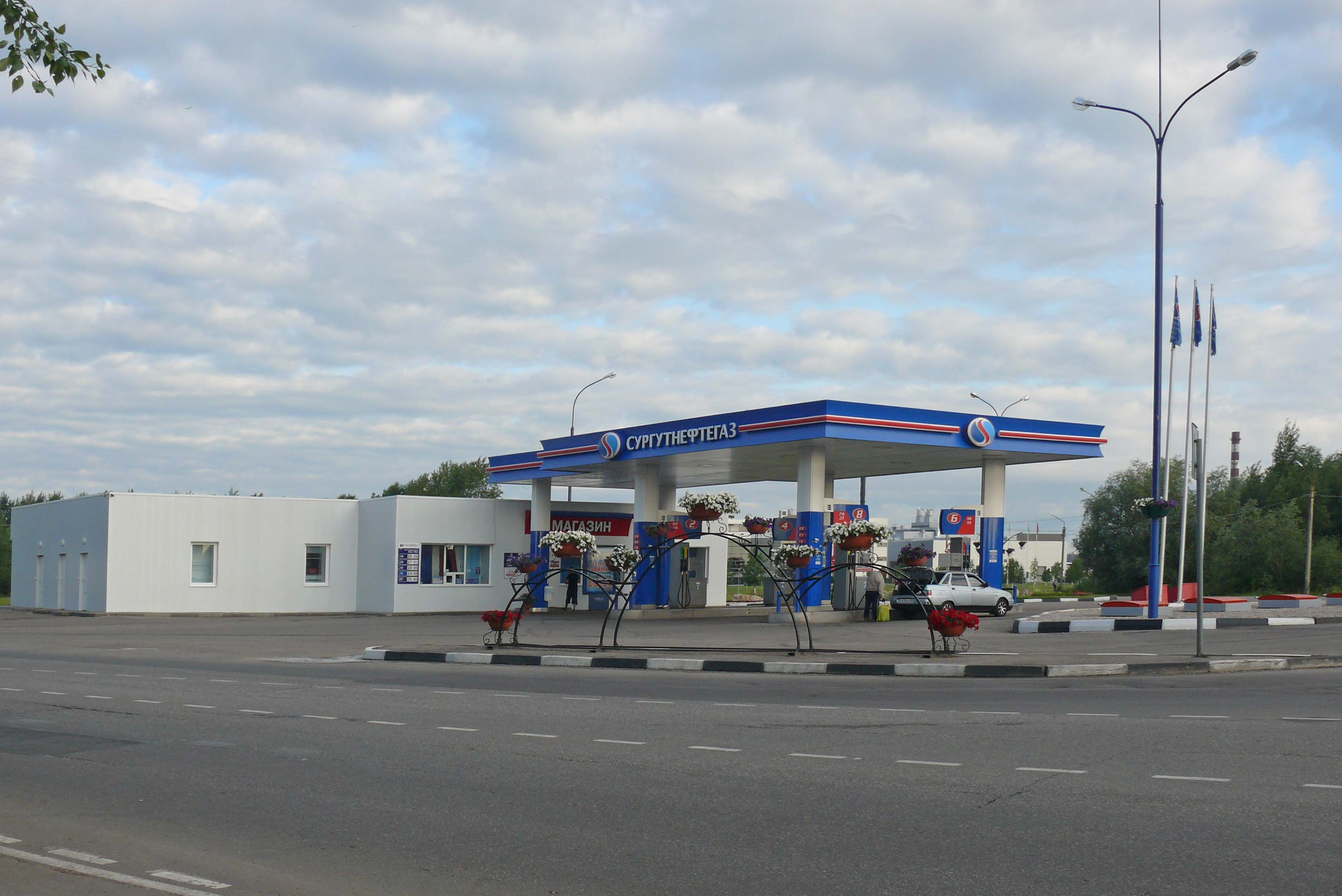 Surgutneftegaz petrol station in Veliky Novgorod, Russia